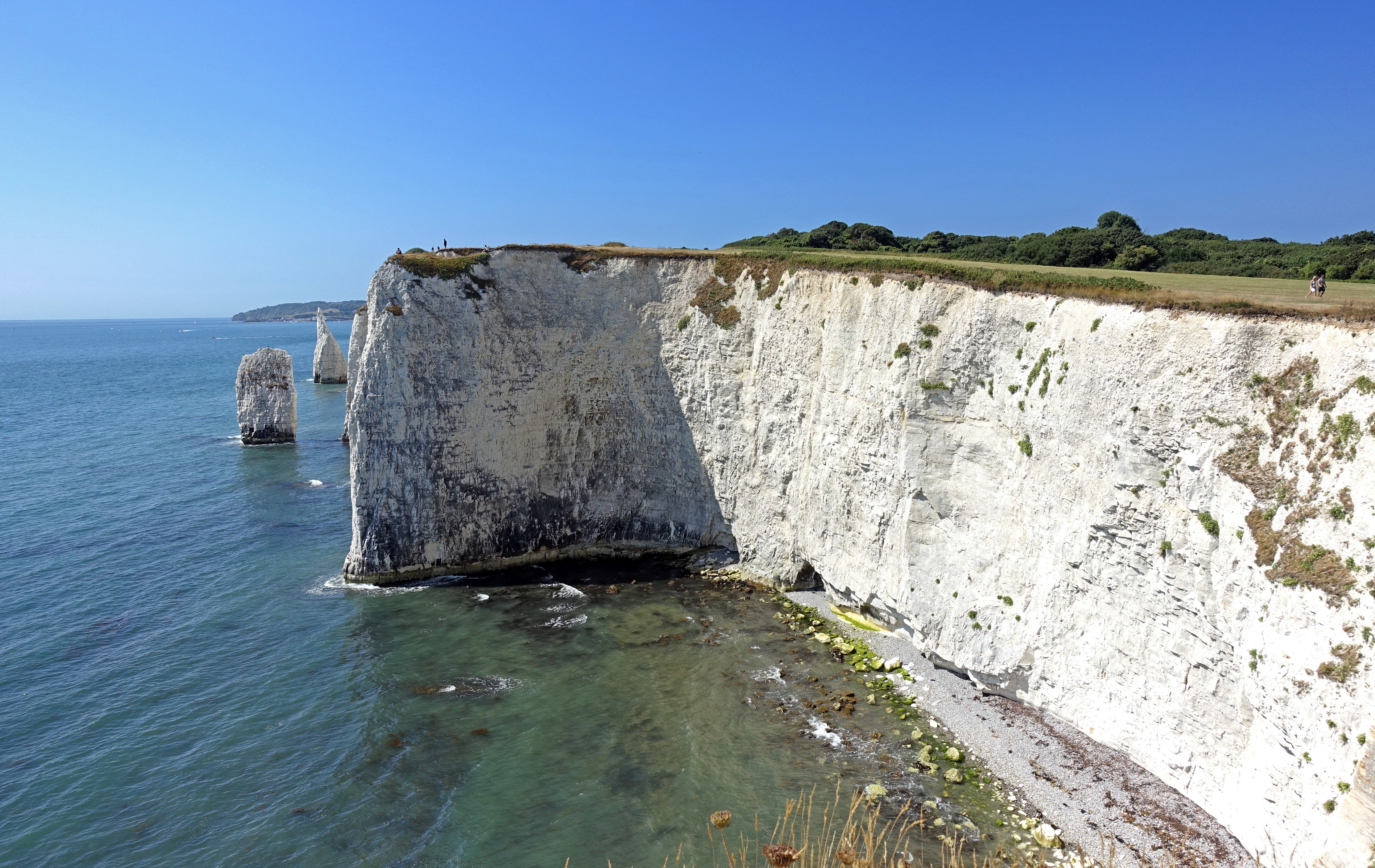 Cliff on Isle of Purbeck.